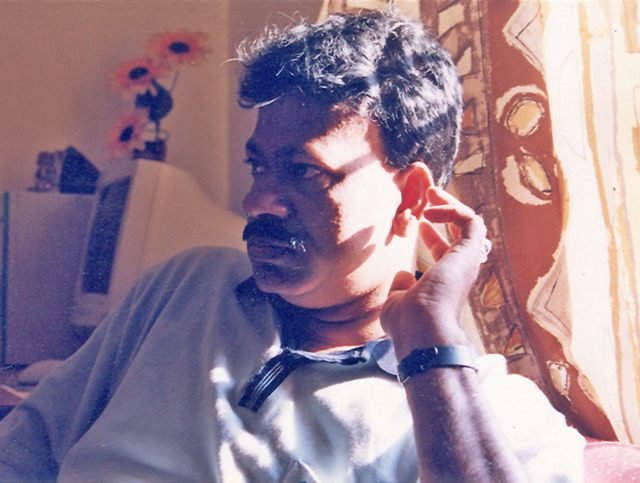 Indian Painter Byomakesh Mohanty